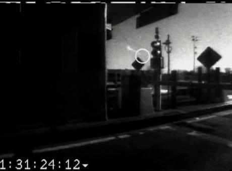 Still from a security camera taken at a tollbooth showing American Airlines Flight 587 (circled in white) falling to the ground and on fire shortly after taking off from JFK International airport on November 12, 2001.